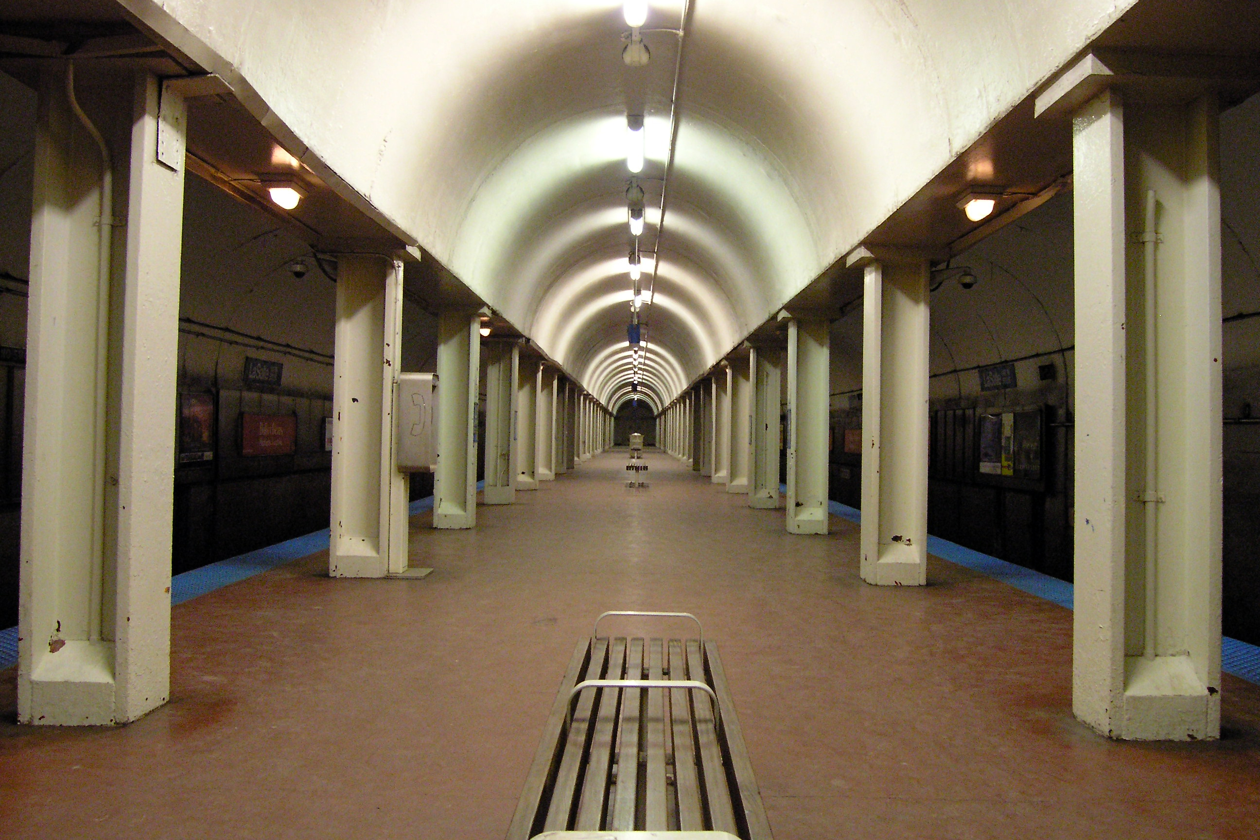 LaSalle 'L' station on the CTA Blue Line